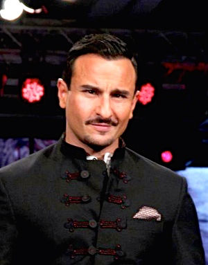 Indian actor Saif Ali Khan at the Van Heusen GQ fashion night in 2015